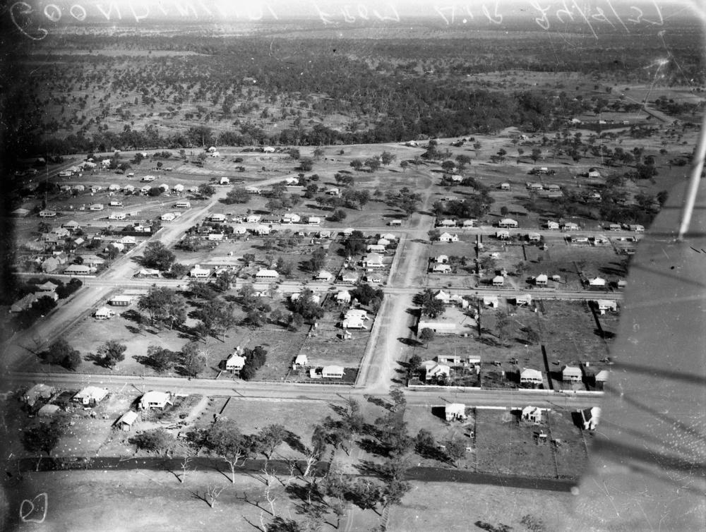 Aerial view of Goondiwindi, Queensland, 1937. Streets of the town of Goondiwindi from the air. See also negative number 106096.